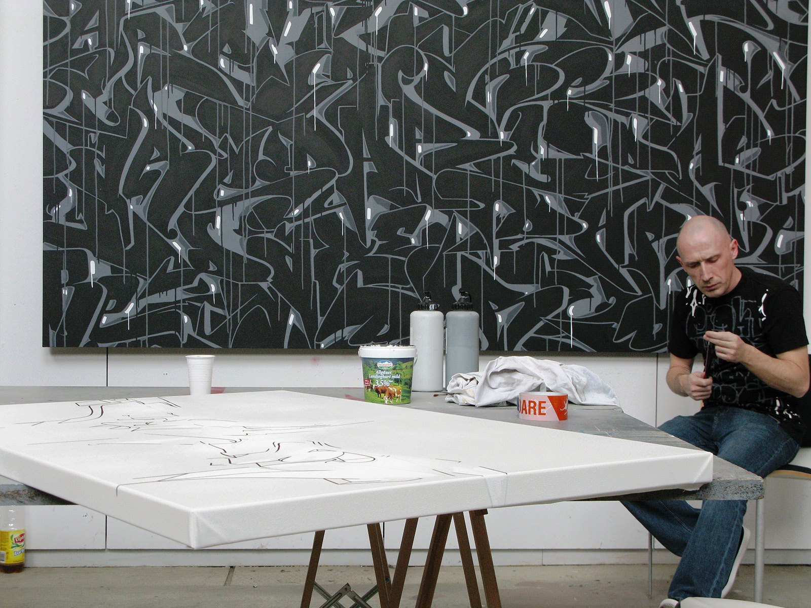 Dare in his Atelier 2008